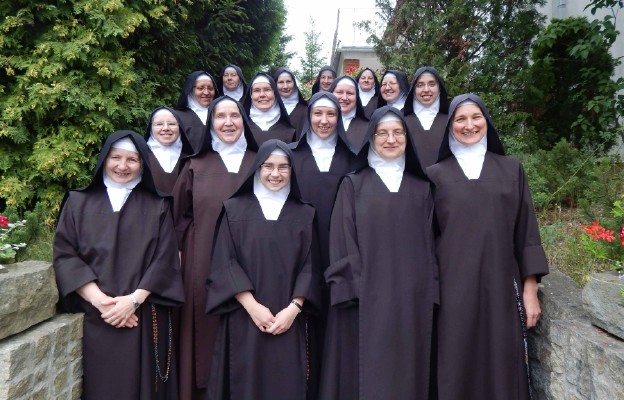 sisters infant Jesus